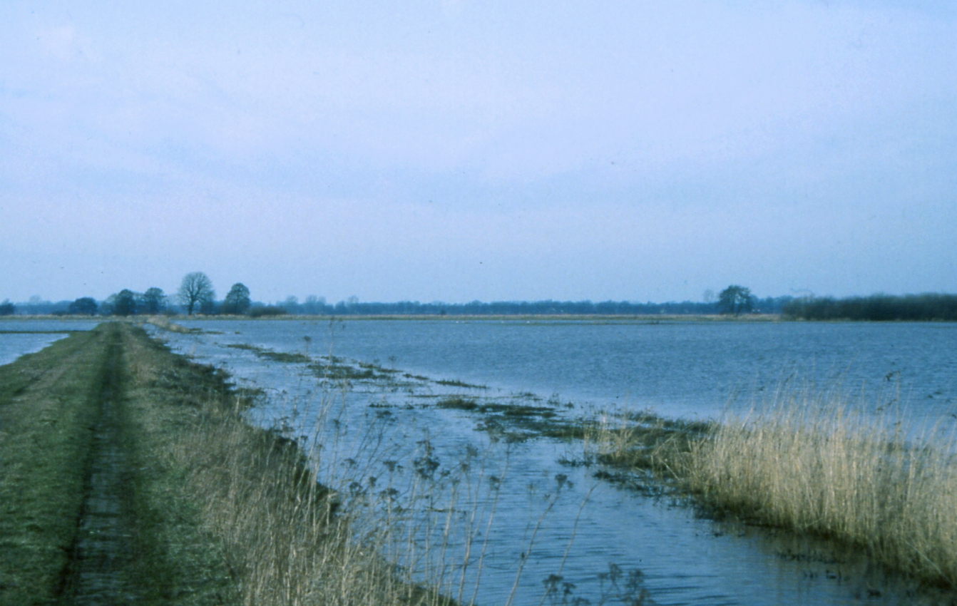 Low riverside pastures of an affluent of the Weser near Bremen, in Winter often flooded (my position as remembered years later, direction "11 o'clock")